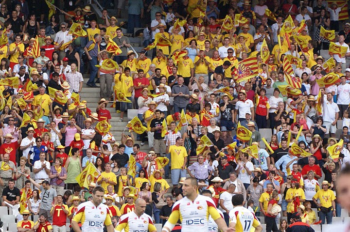 Photo of Catalans Dragons at the Olympic Stadium in Barcelona, playing Warrington in the Super League.